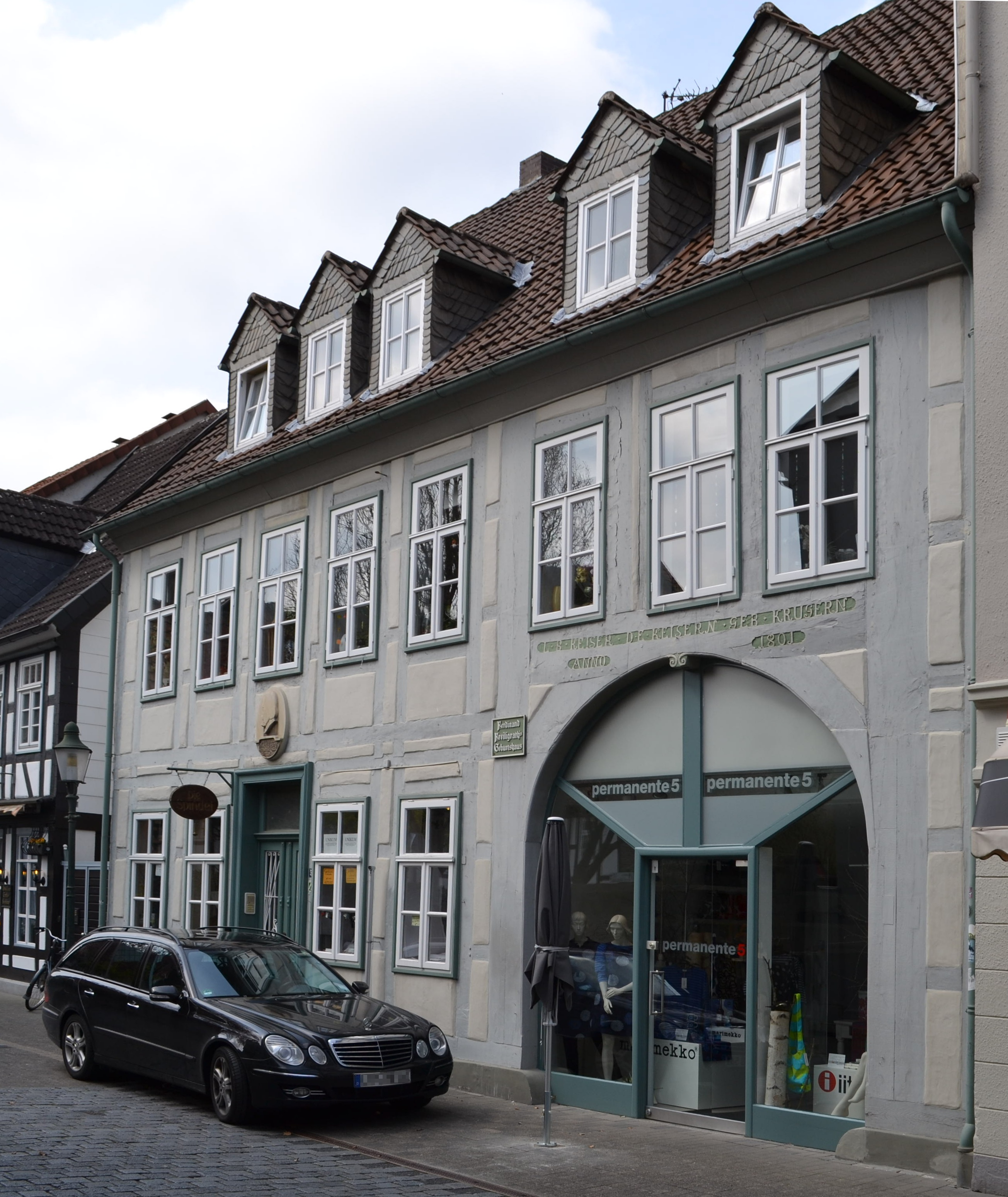 Birthplace of German poet Ferdinand Freiligrath